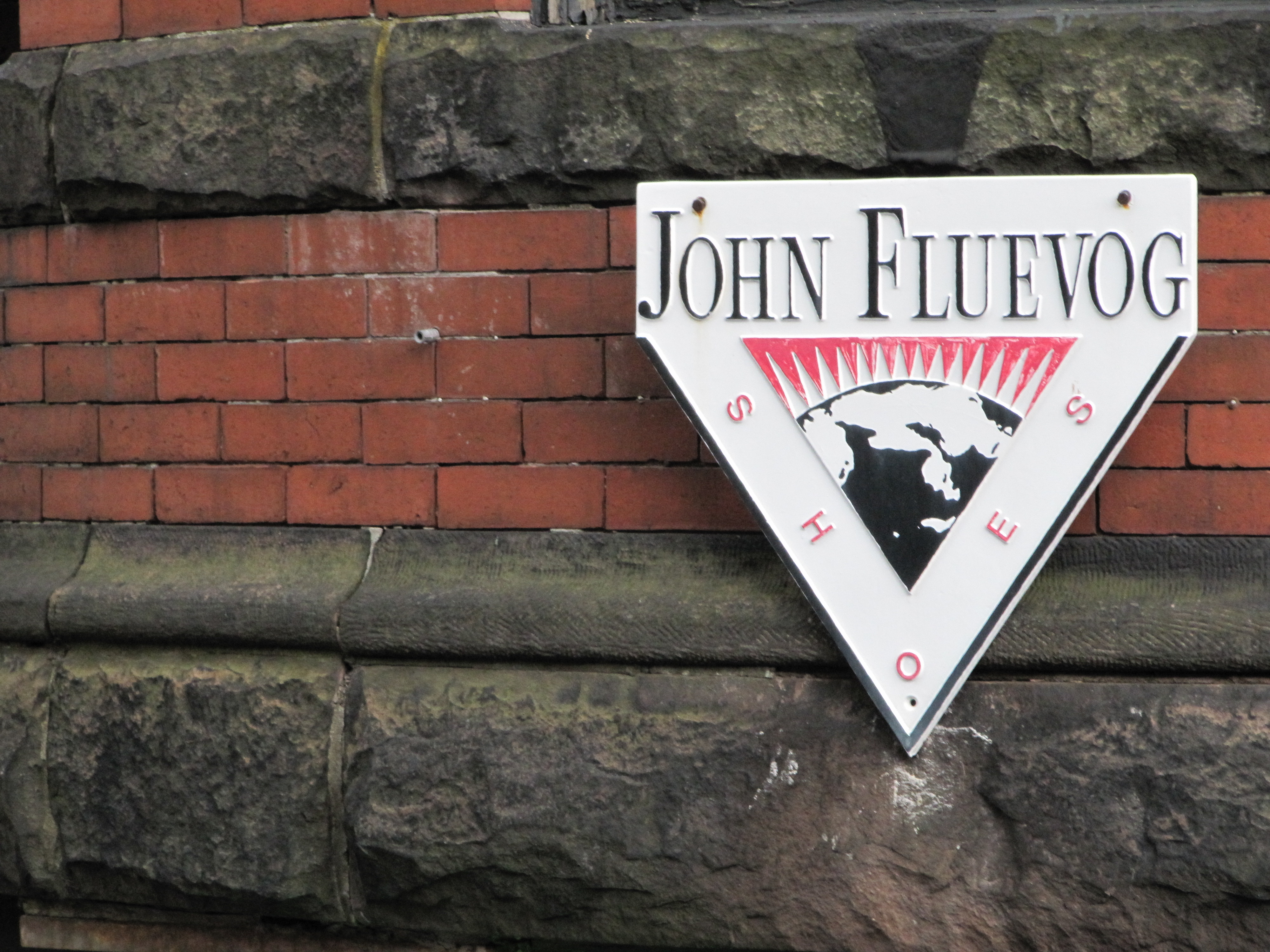 Sign on John Fluevog store on Newbury Street in Boston, Massachusetts.